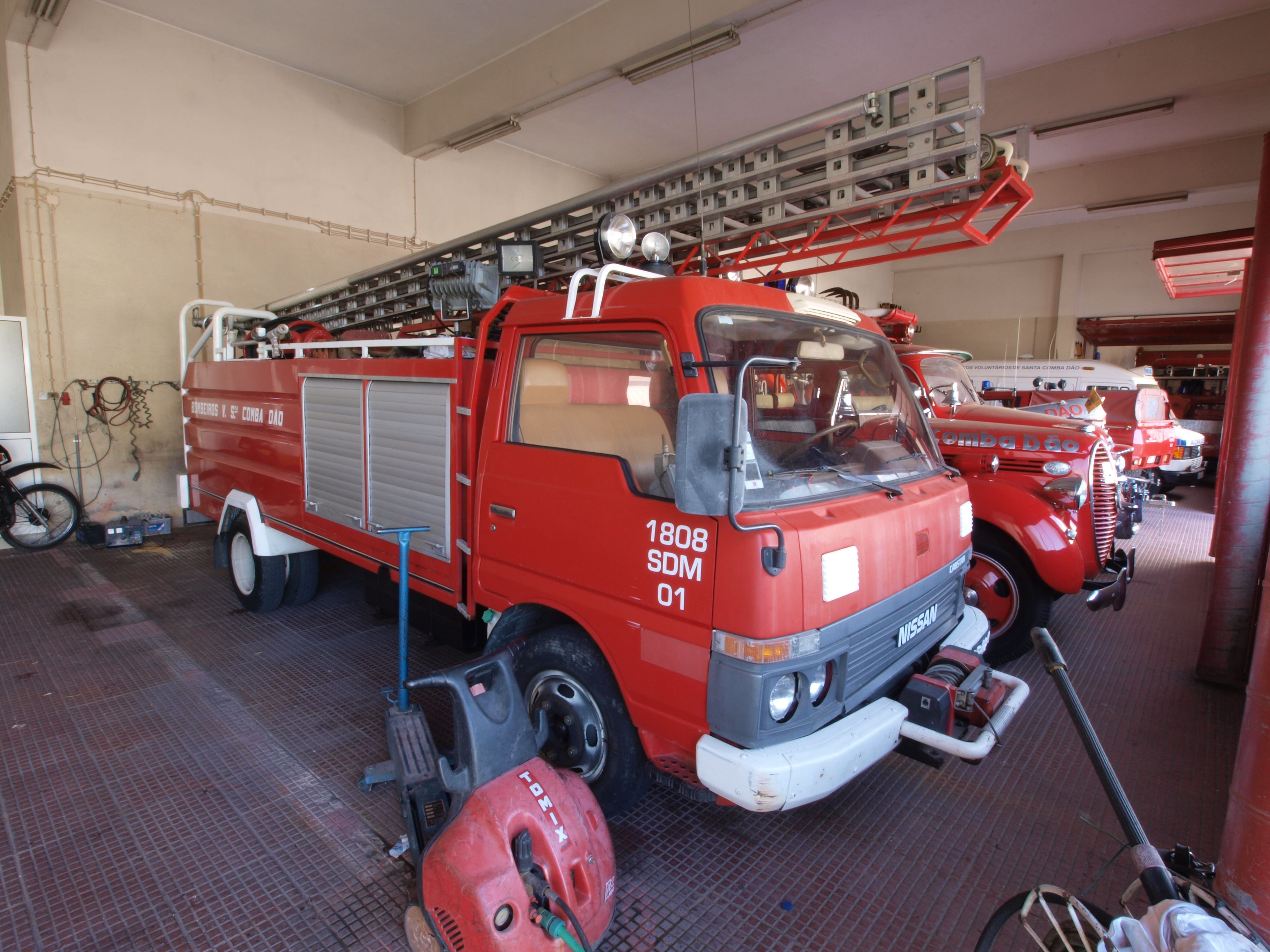 Nissan Cabstar fire engine of the fire department of Bombeiros Santa Comba Dao, Portugal